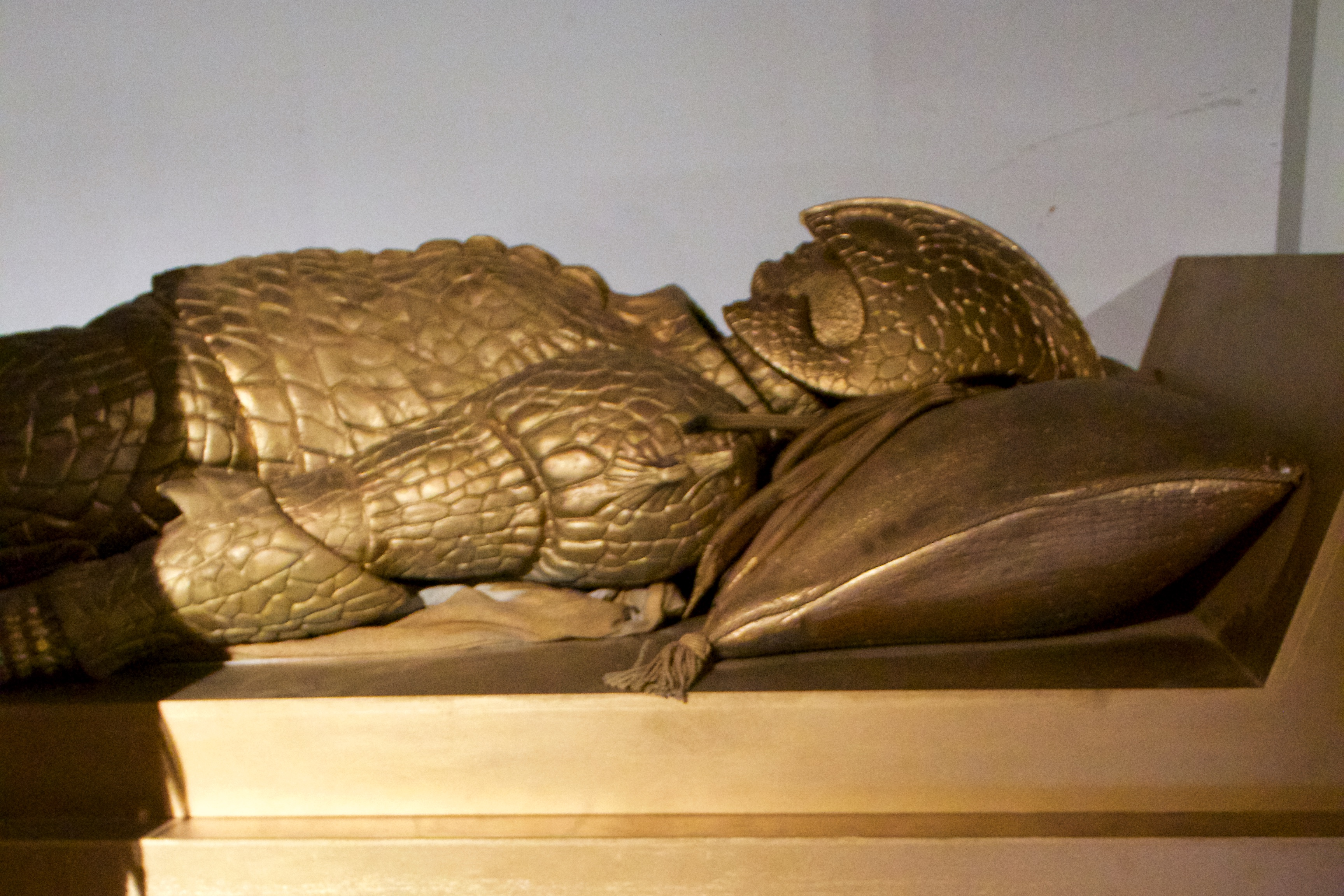 IMG_8630 Doctor Who Experience series 10